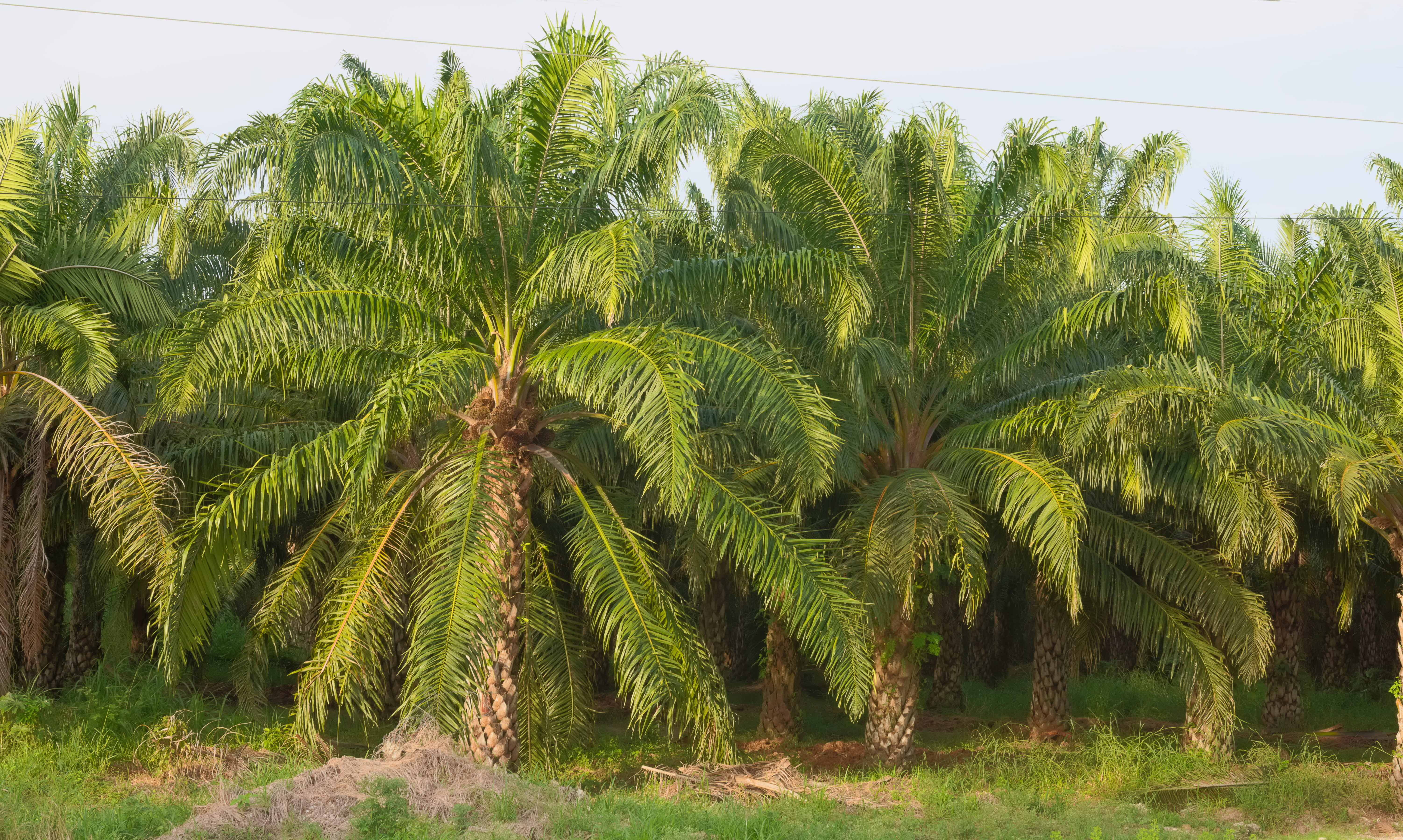 American oil palm (Elaeis oleifera), Palenque, Chiapas, Mexico